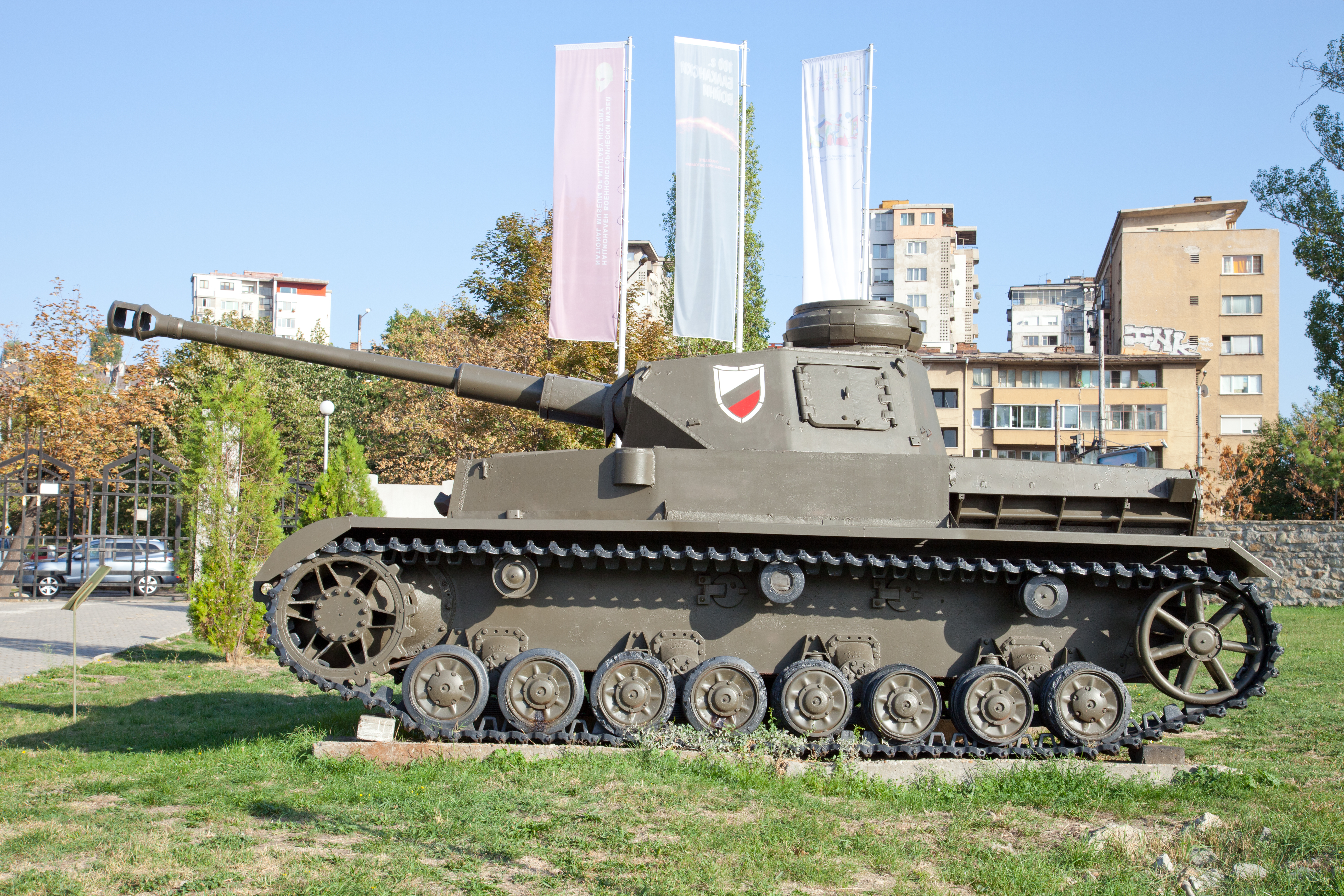 National Museum of Military History (Bulgaria)